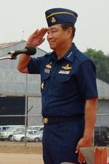 The official closing ceremony of Exercise Cope Tiger 2008. Republic of Singapore Air Force is represented by Maj Gen Ng Chee Khern (far left). The Commander-in-Chief of the Royal Thai Air Force, Air Chief Marshal Chalit Pukbhasuk is in the centre and Maj Gen Jeffrey Remington (right) represents the US Armed Forces